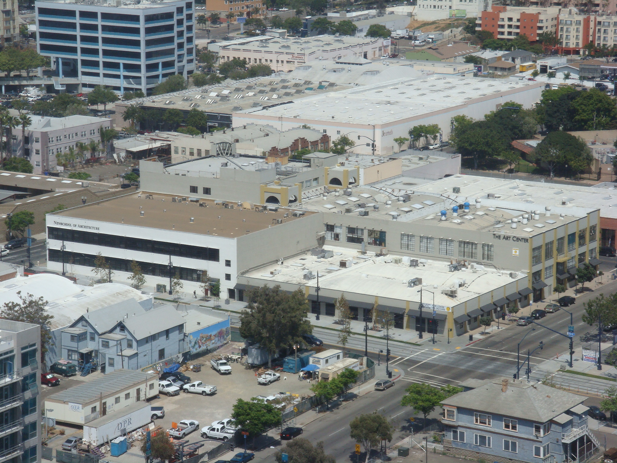 Aerial View of the NewSchool of Architecture and Design, taken from the top of a condominium building